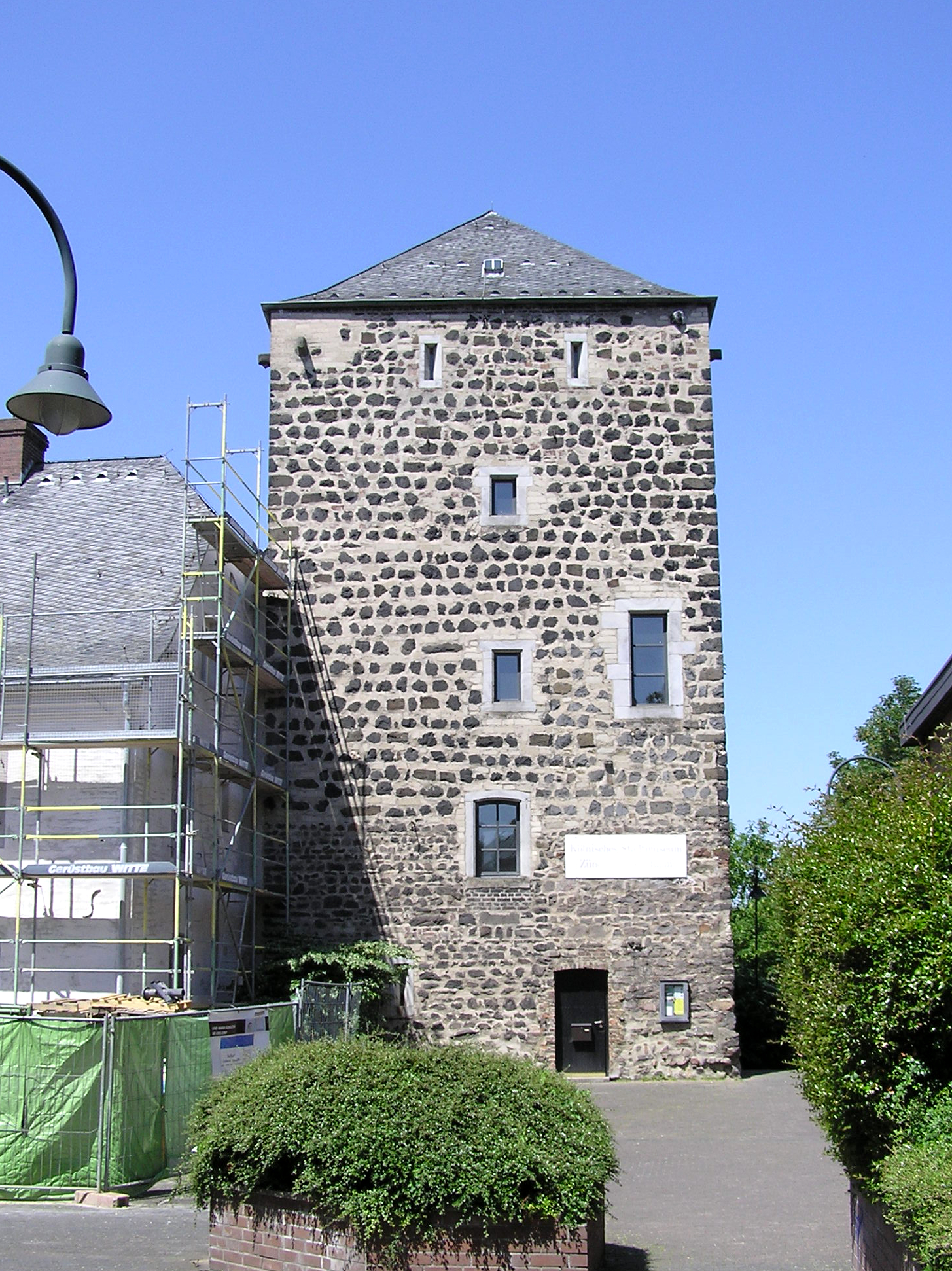 Medieval Guard Tower of the Town Zündorf near Cologne, Germany.